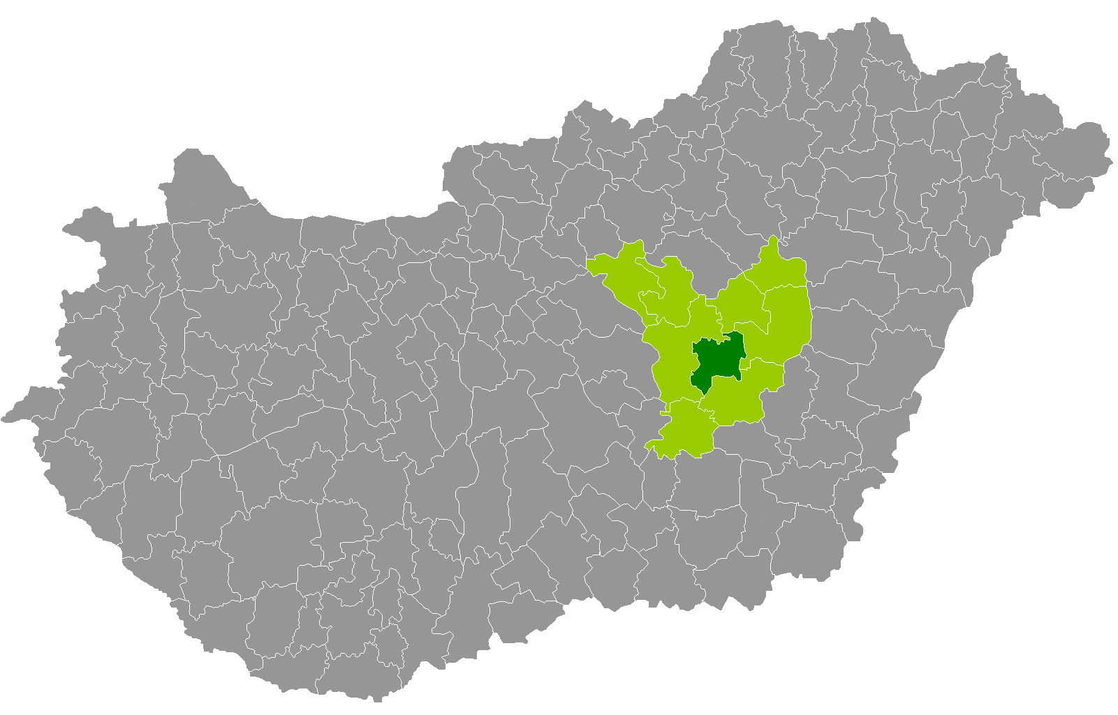 Location of Törökszentmiklós District, Jász-Nagykun-Szolnok, Hungary